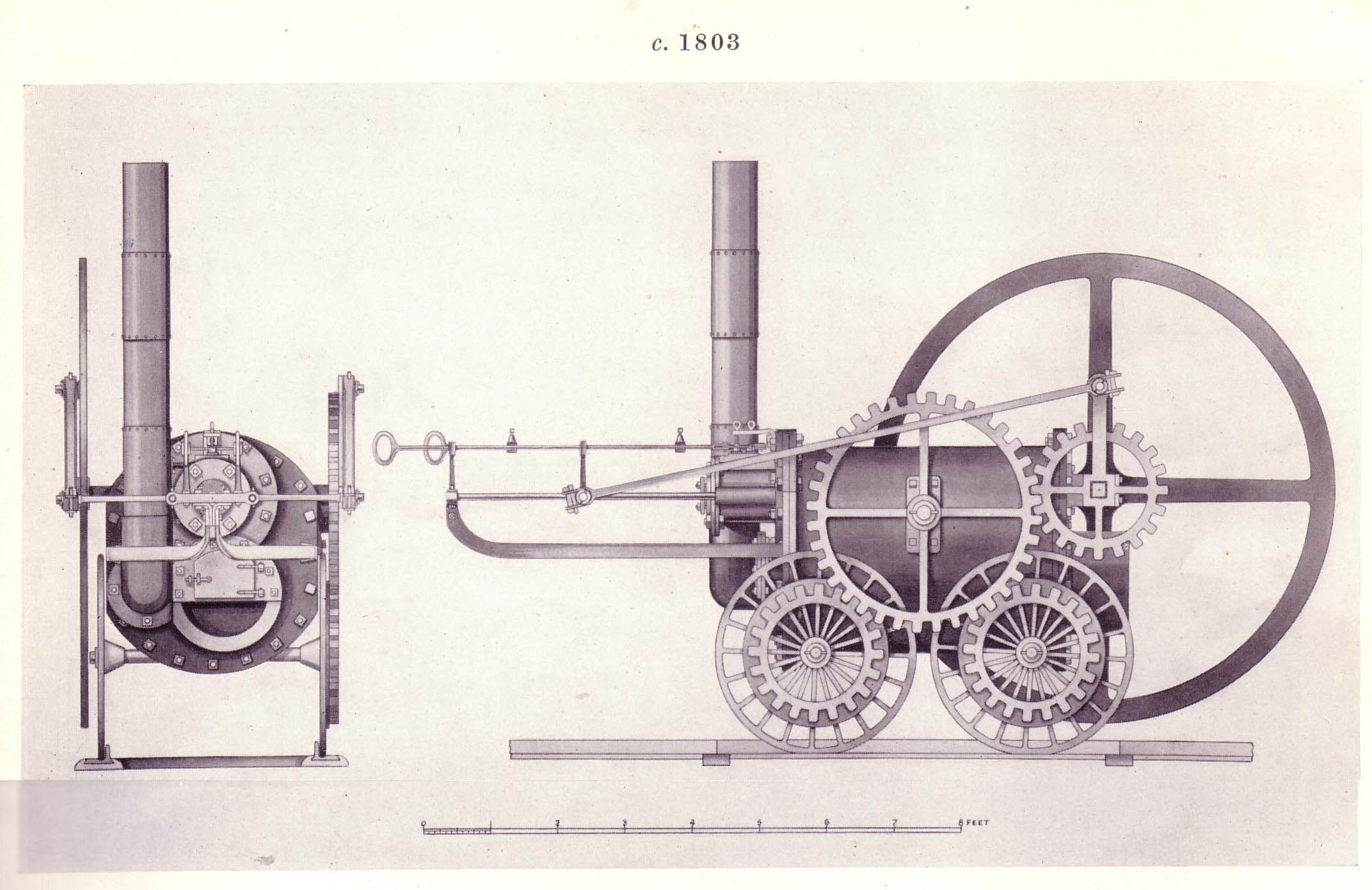 Engraving from Science Museum